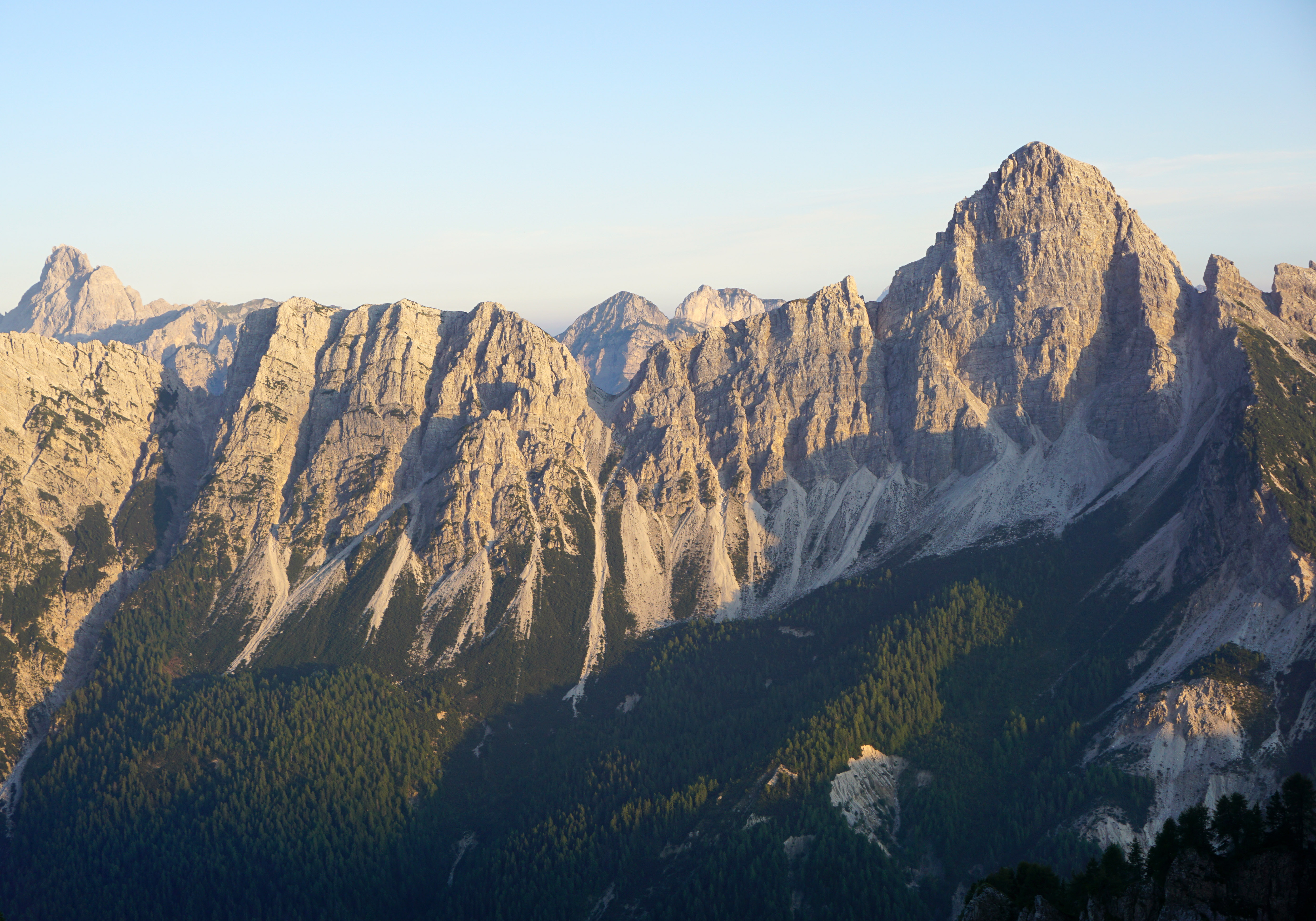 Bosconero mountain range seen from Monte Rite.